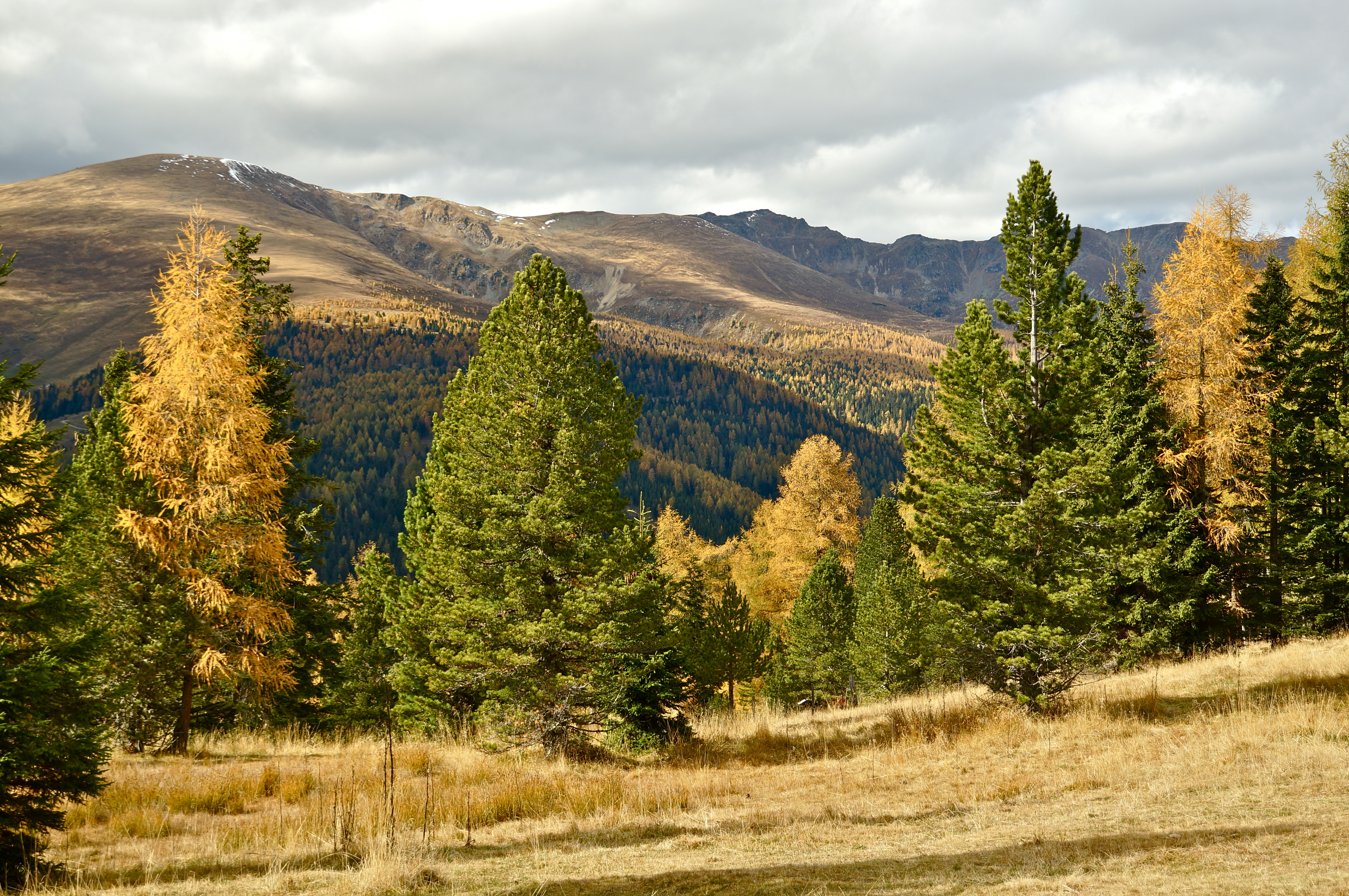 Autumnal Larix decidua (yellow), Pinus cembra (dark green, wide), and Picea abies (dark green, slender), municipality Albeck, district Feldkirchen, Carinthia / Austria / EU